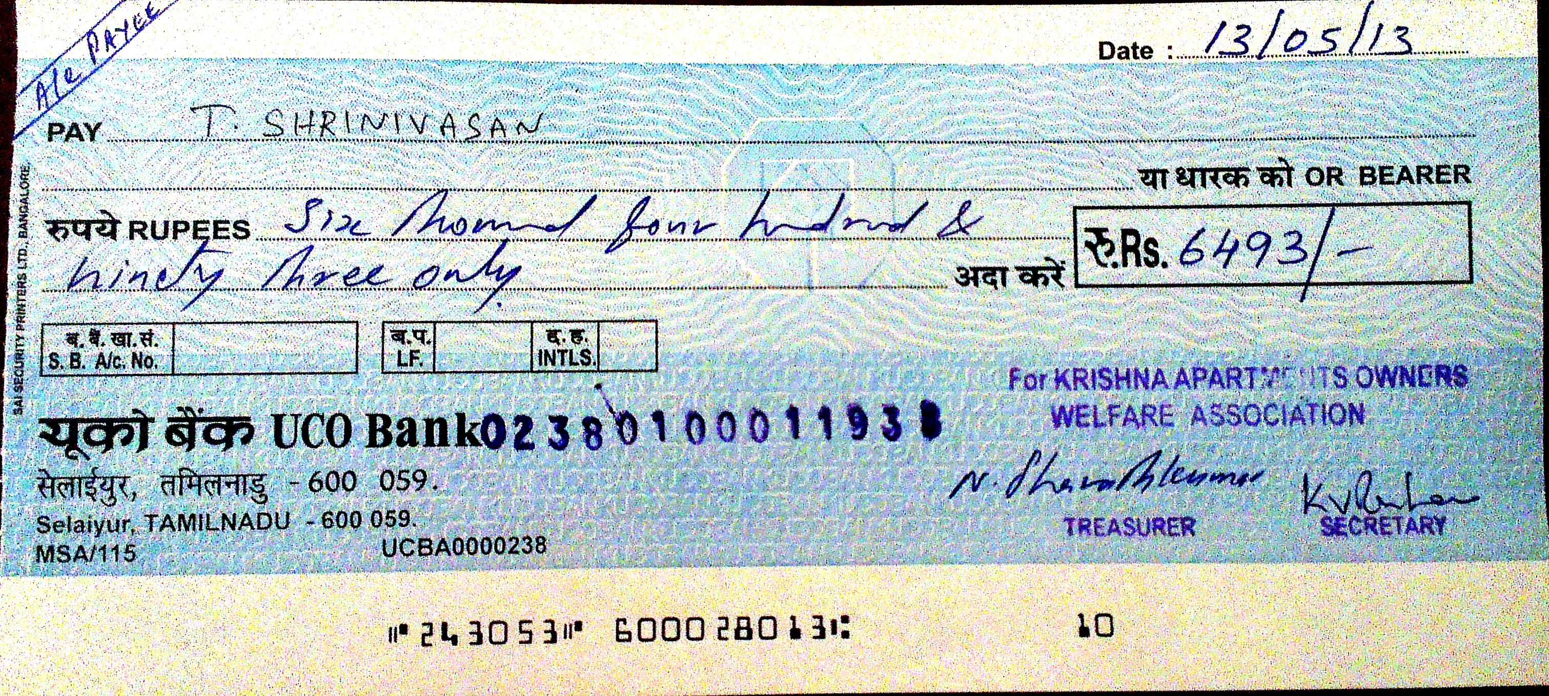 this is a cheque provided to give money in a safer way. as this is crossed in the corner, it can be paid against a bank account only